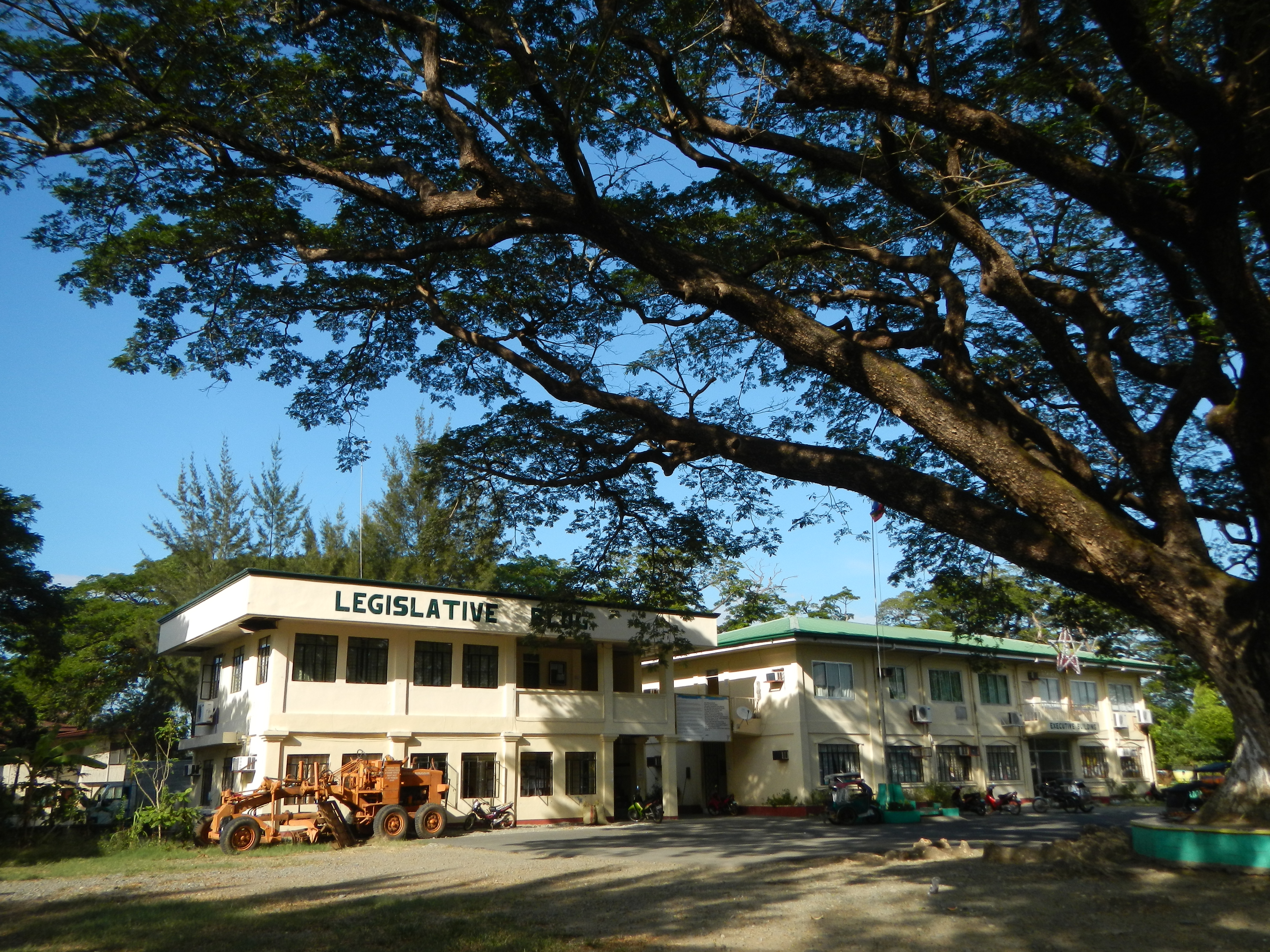 Upload Wizard photos of - Infanta, Pangasinan[1] Barangay Poblacion, Town Proper, the Centro, downtown, here, all buses to Santa Cruz pass by, along this Maharlika or Pan-Philippine Highway - specifically, the Old Town Hall of Infanta and New Town Hall Complex beside the Dry and Wet Public Markets, selling fishes of the Philippines varieties from the Infanta seas, the Rural Health Unit, which is in front of the sea shore, beaches of the deep blue ocean facing the burning sun - the center is the Saint John the Evangelist Parish Church of Infanta, XIX Centenary of the Redemption - in front of the Legislative building - this church belongs to the [2] Infanta (F- 1878) Address: 2412 Pangasinan, Titular: St. John the Evangelist, Dec. 27 Co-Pastors: Father Wilson B. Ramirez and Father Divino E. Martin Roman Catholic Diocese of Alaminos.